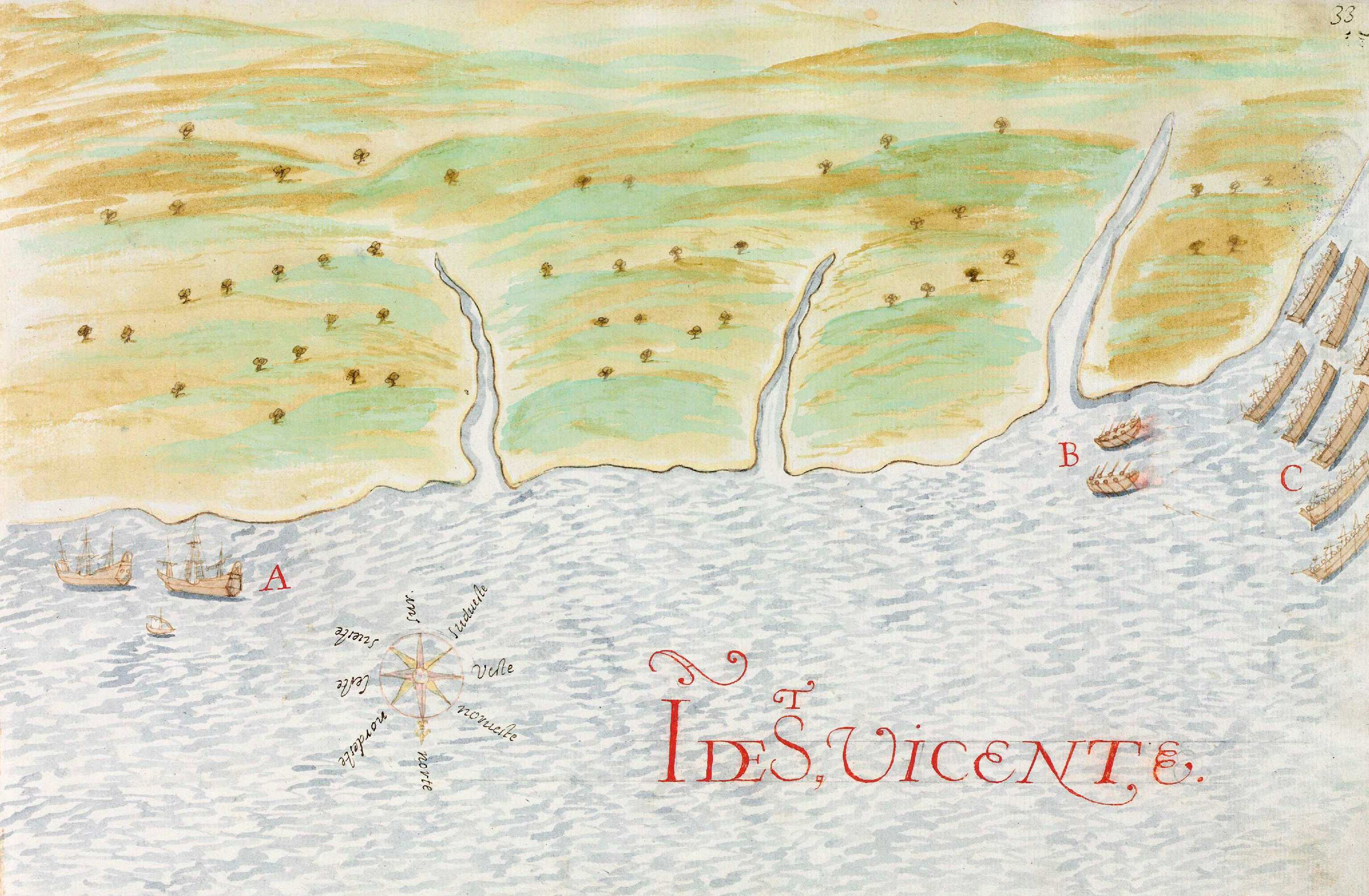 Saint Vincent island. Carib pirogues (B) attack by surprise two Spanish boats (B) with whom they had agreed to trade. Page 33 of the Descripciones geográphicas e hydrográphicas de muchas tierras y mares del Norte y Sur en las Indias, en especial del descubrimiento del Reino de la California (Geographic and hydrographic descriptions of many northern and southern lands and seas in the Indies, specifically the discovery of the kingdom of California), written by captain Nicolás de Cardona after his expedition of 1614.